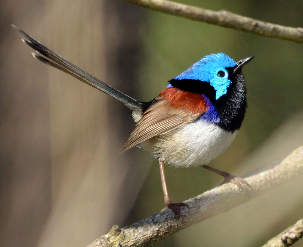 A male Variegated Fairywren in Brisbane, Queensland, Australia.